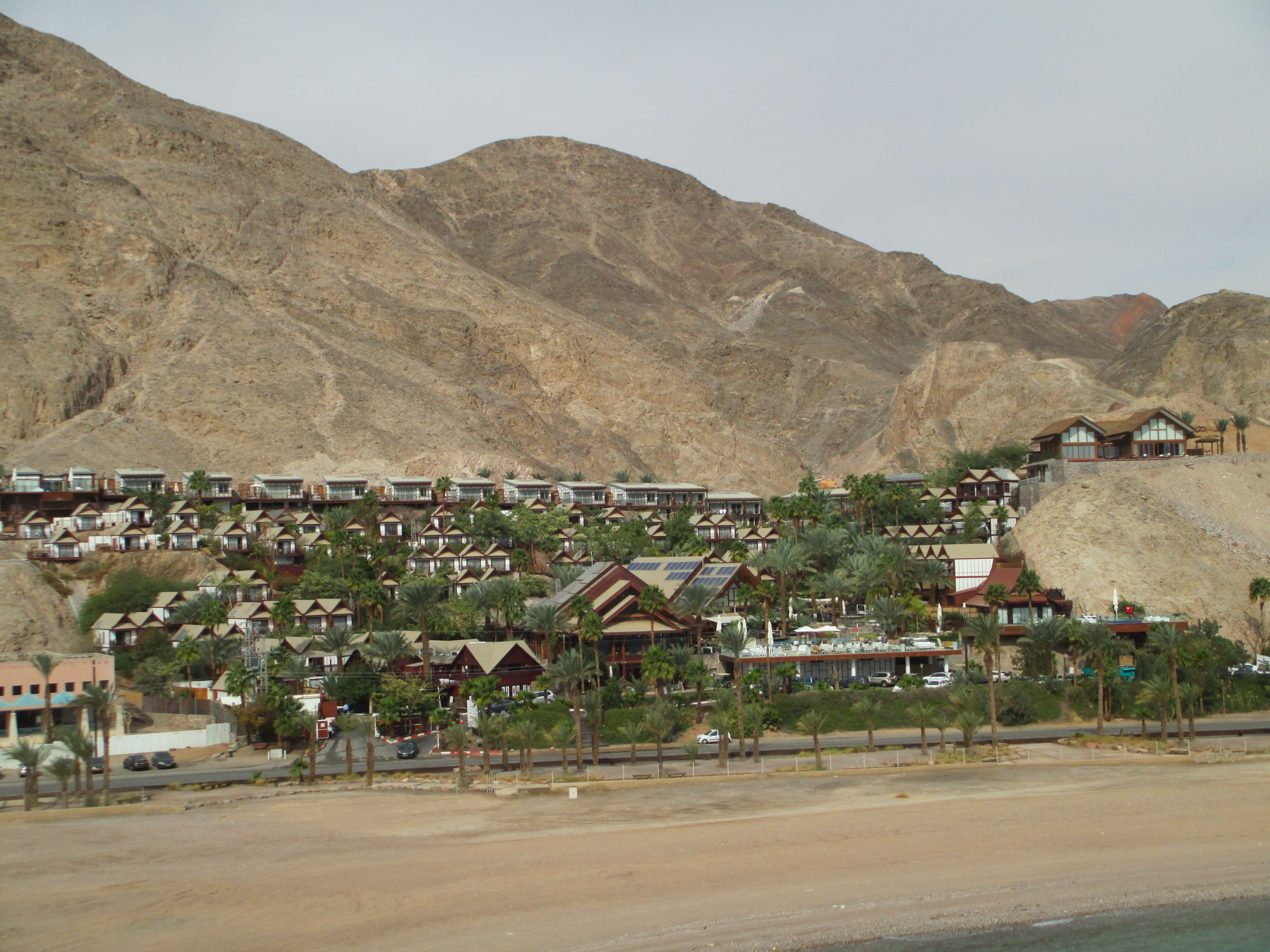 Orchidea hotel (Thailandic village) in Eilat